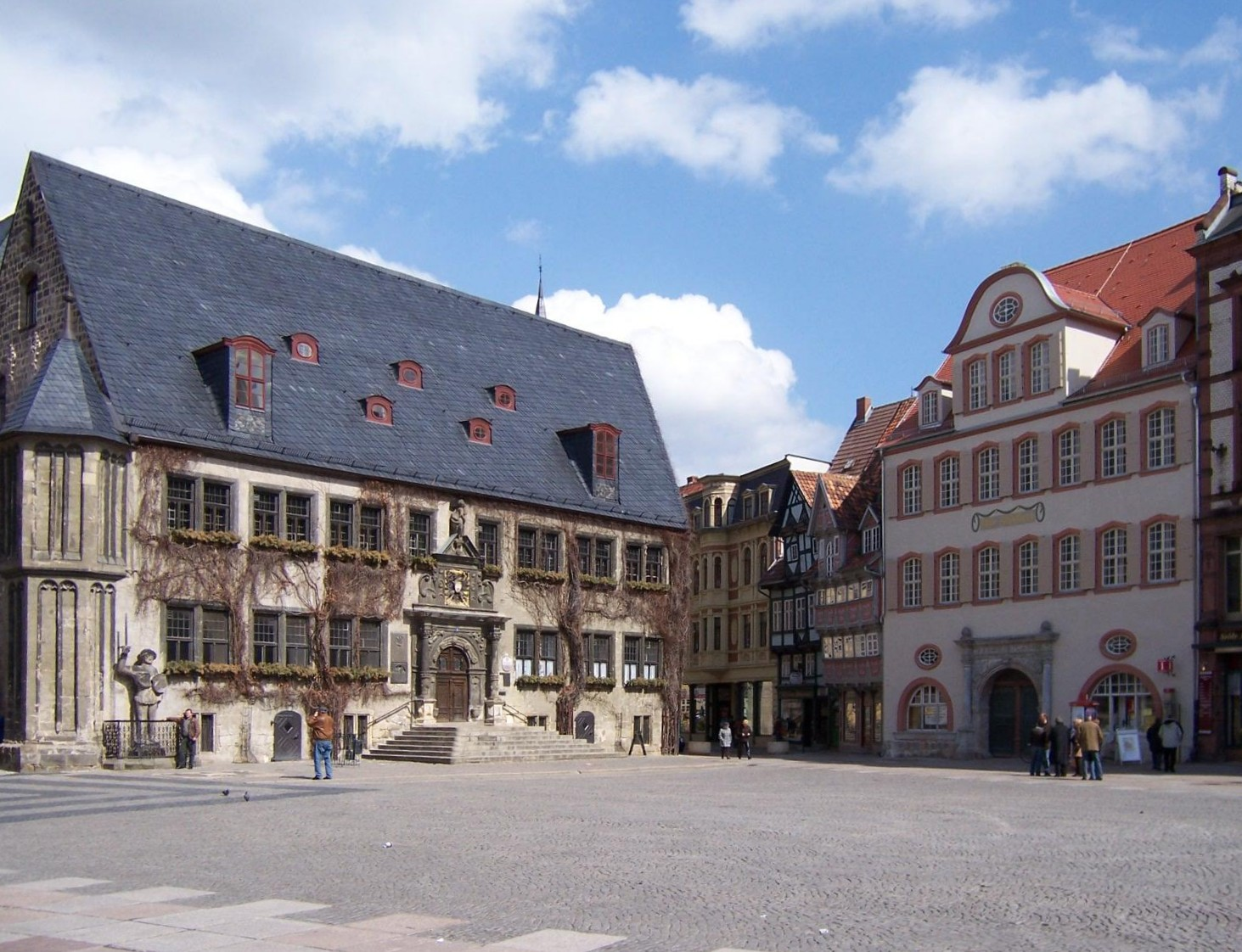 market square of Quedlinburg, Saxony-Anhalt (Germany)